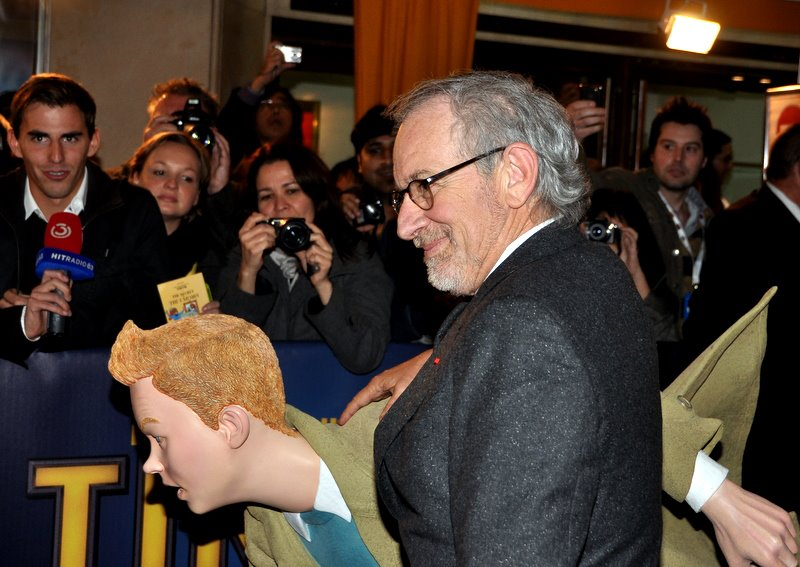 Steven Spielberg and effigy of Tintin at the Paris premiere of "The Adventures of Tintin : the secret of the unicorn"